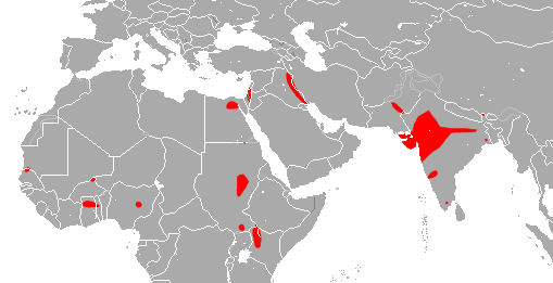 Naked-Rumped Tomb Bat (Taphozous nudiventris) range